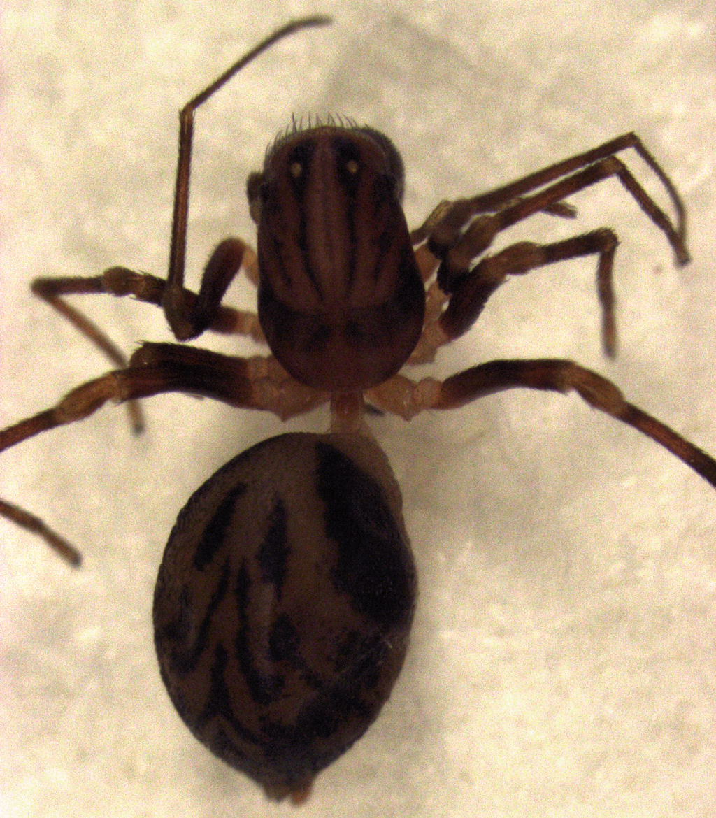 Aotearoa magna (female)